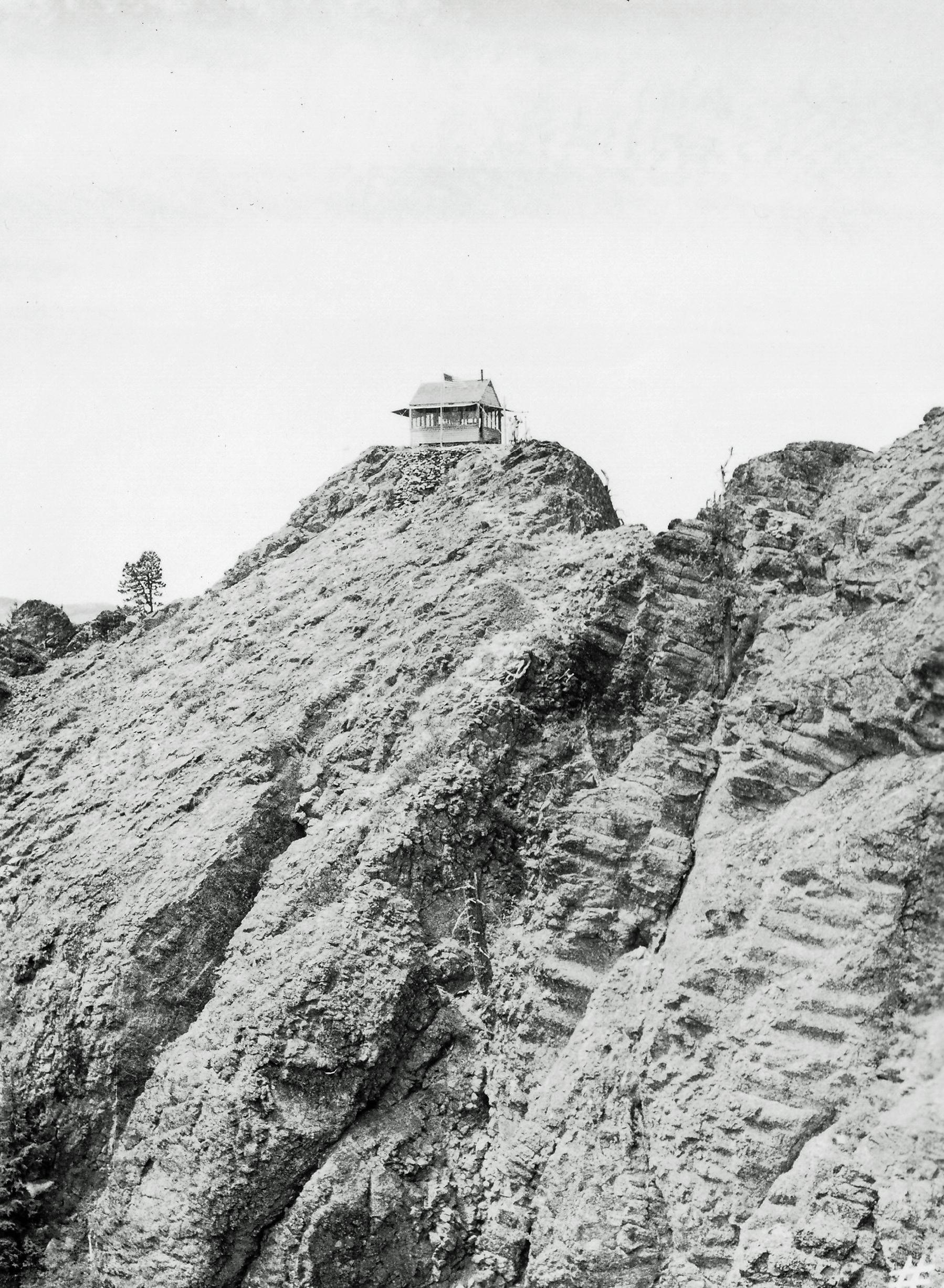 Sleeping Beauty Lookout House, Columbia National Forest, WA 1944